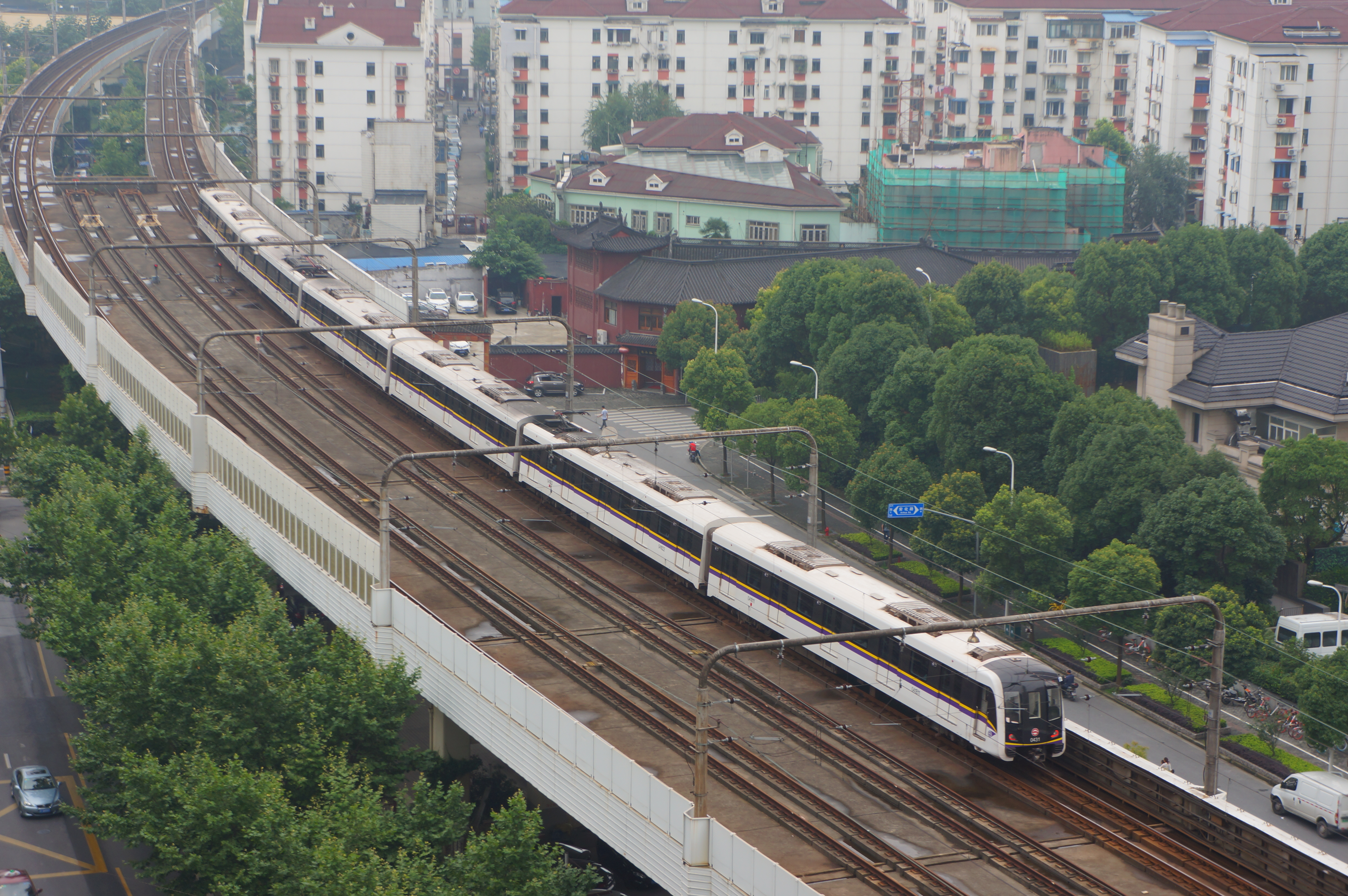 201706 04A02-031 departs from Zhongshan Park Station.